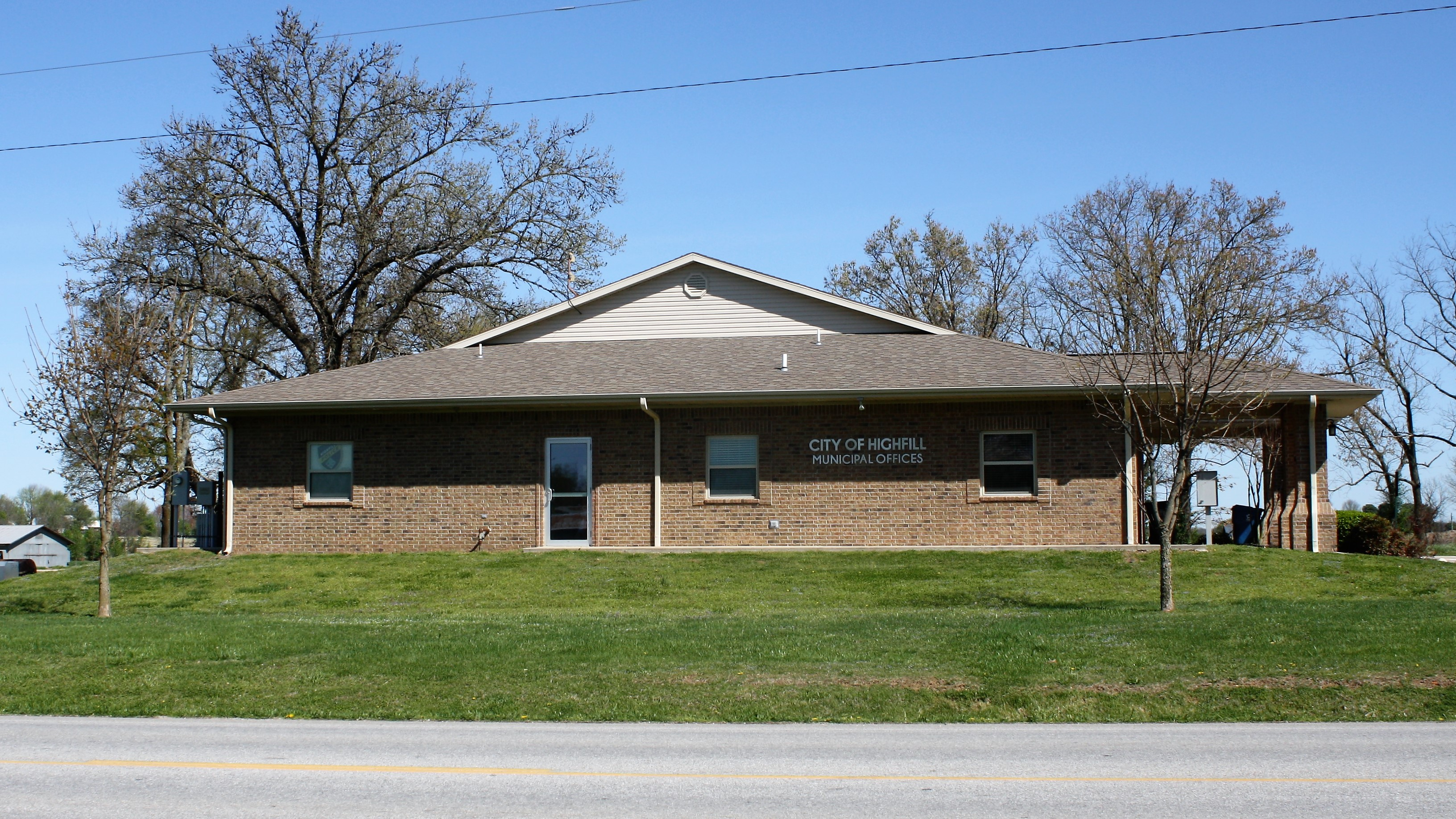 City Hall in Highfill, Arkansas as seen from Highway 12